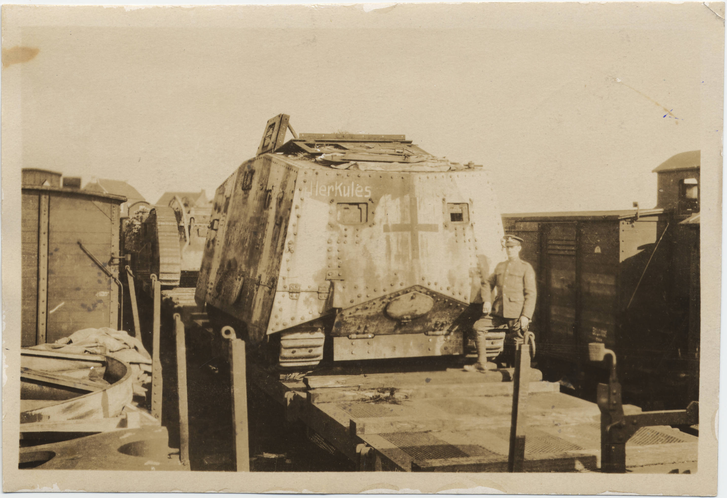 Item is a photograph from an album of World War One-related photographs in the William Okell Holden Dodds fonds. Brigadier General Dodds joined the Canadian Expeditionary Force in 1914 and was commanding officer of the 5th Canadian Division Artillery and served in France from 1917-1918.